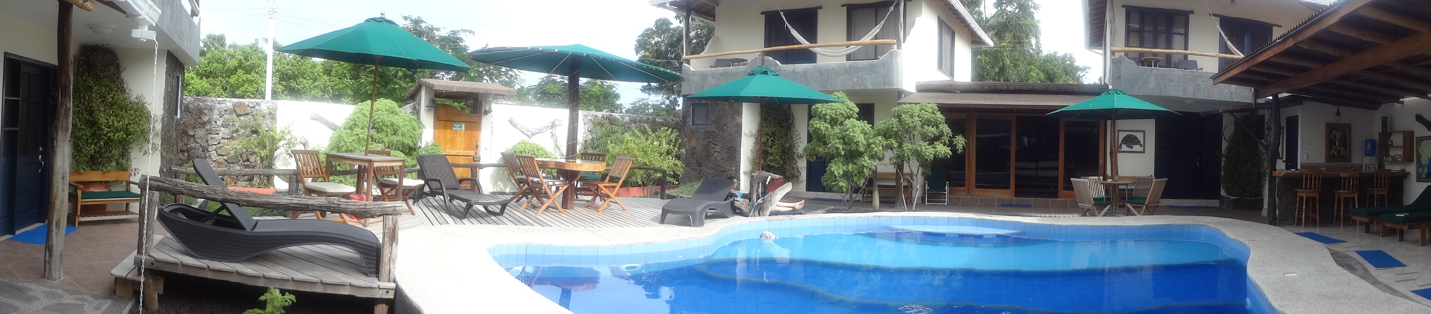 A panoramic photograph, looking at the Galapagos Cottages. The location is perfect ǃǃǃǃ Just two minutes away from the entrace to Tortuga Bay, Santa Cruz Island Galápagos. a must if you are able to visit the Galapagos, look no further ǃ